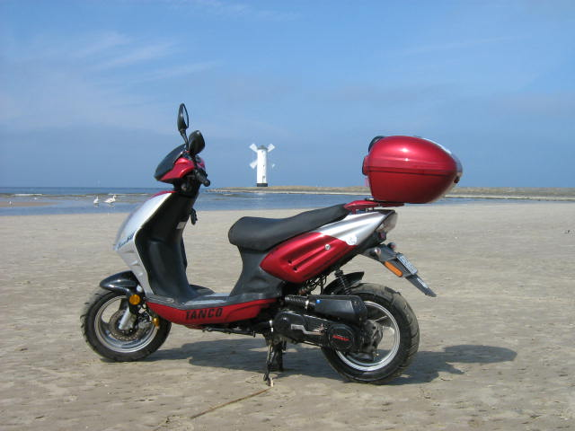 Baotian in Świnoujście